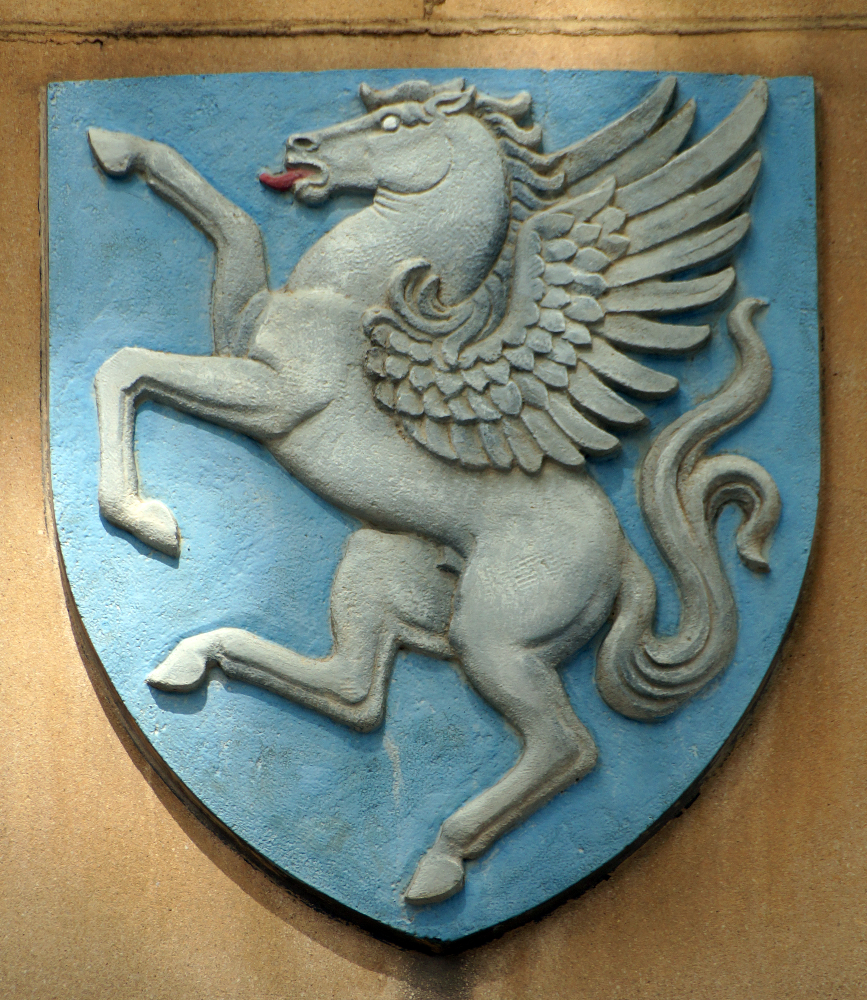 Sculpture of heraldic shields on the Fountain Court building, Steelhouse Lane, Birmingham, England by local sculptor William Bloye, 1964.